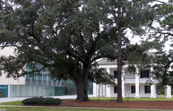 Photo of Paul and Lulu Hilliard University Art Museum at the University of Louisiana at Lafayette taken by Aaron charles